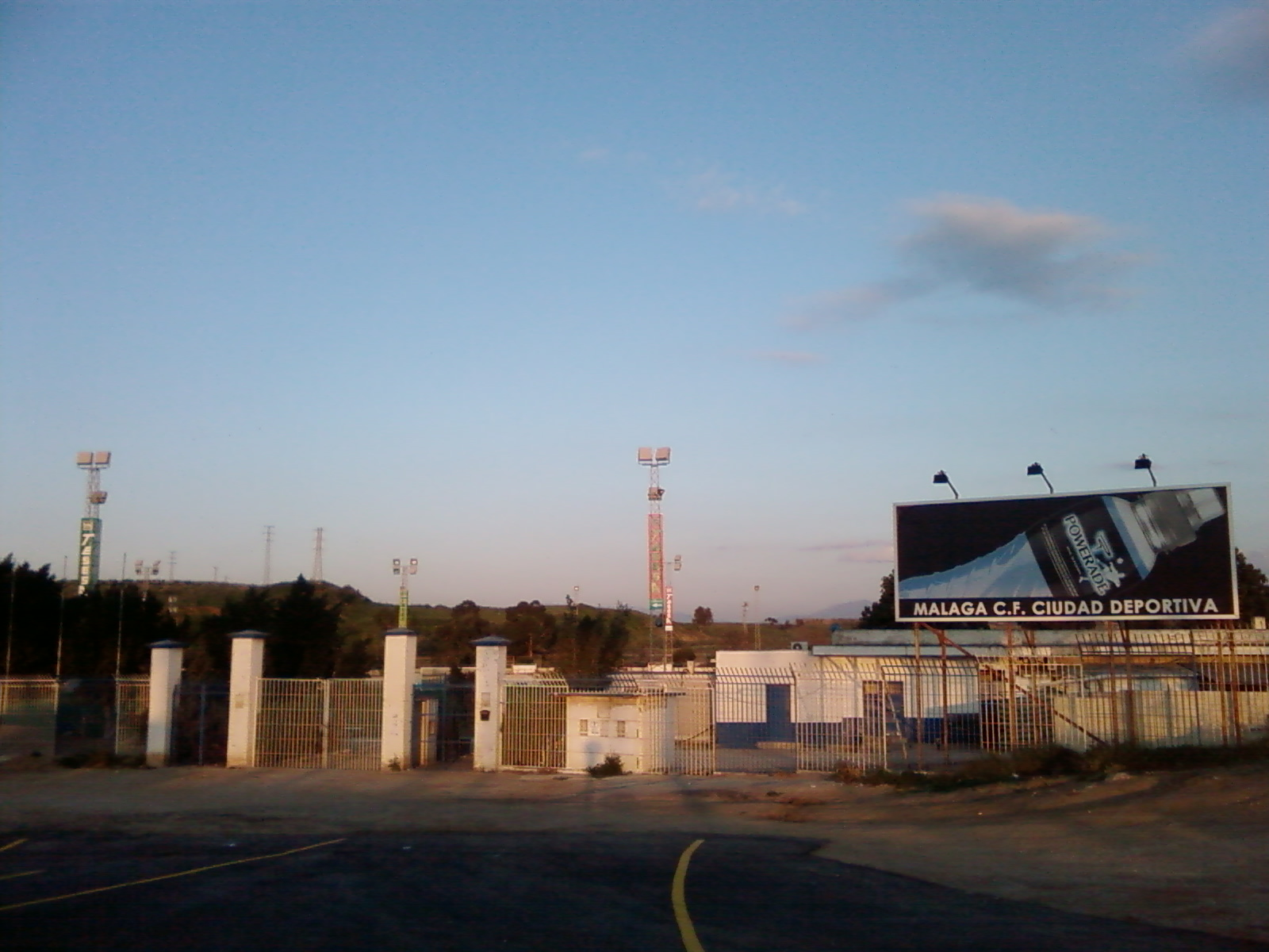 "El Viso" Sport Centre, Málaga, Spain